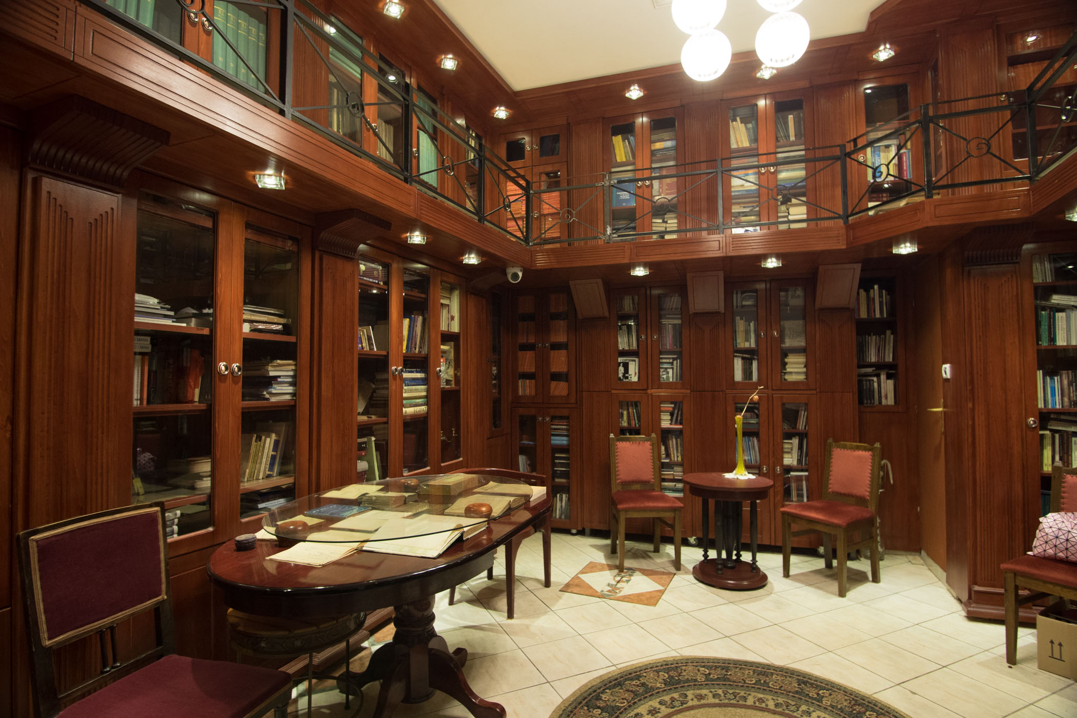 The interior of the Museum of Book and Travel in Belgrade, Serbia. Part of the Society for Culture, Art and International Cooperation Adligat. Српски (ћирилица): Унутрашњост Музеја књиге и путовања у Београду. Део Удружења за културу, уметност и међународну сарадњу „Адлигат“.